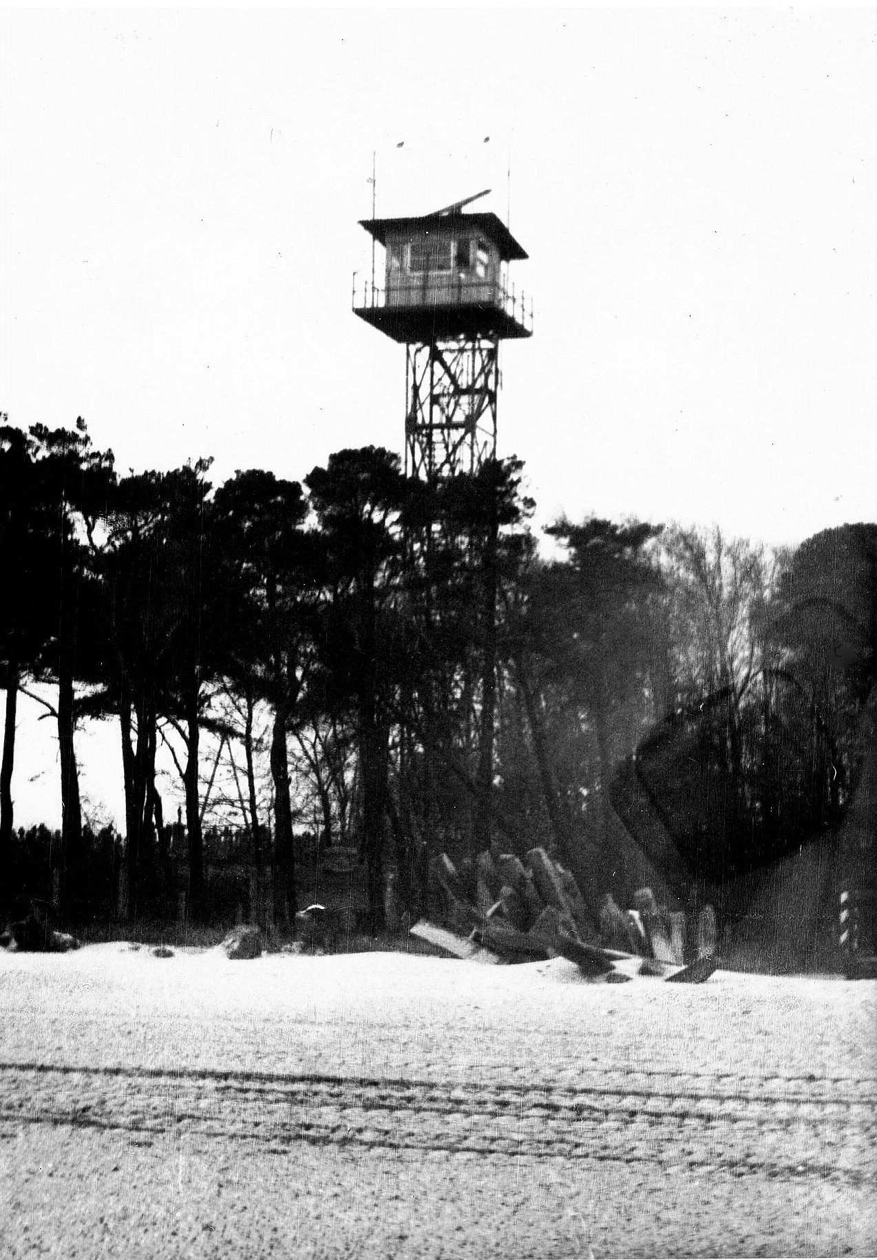 Border Protection Forces in Jastarnia